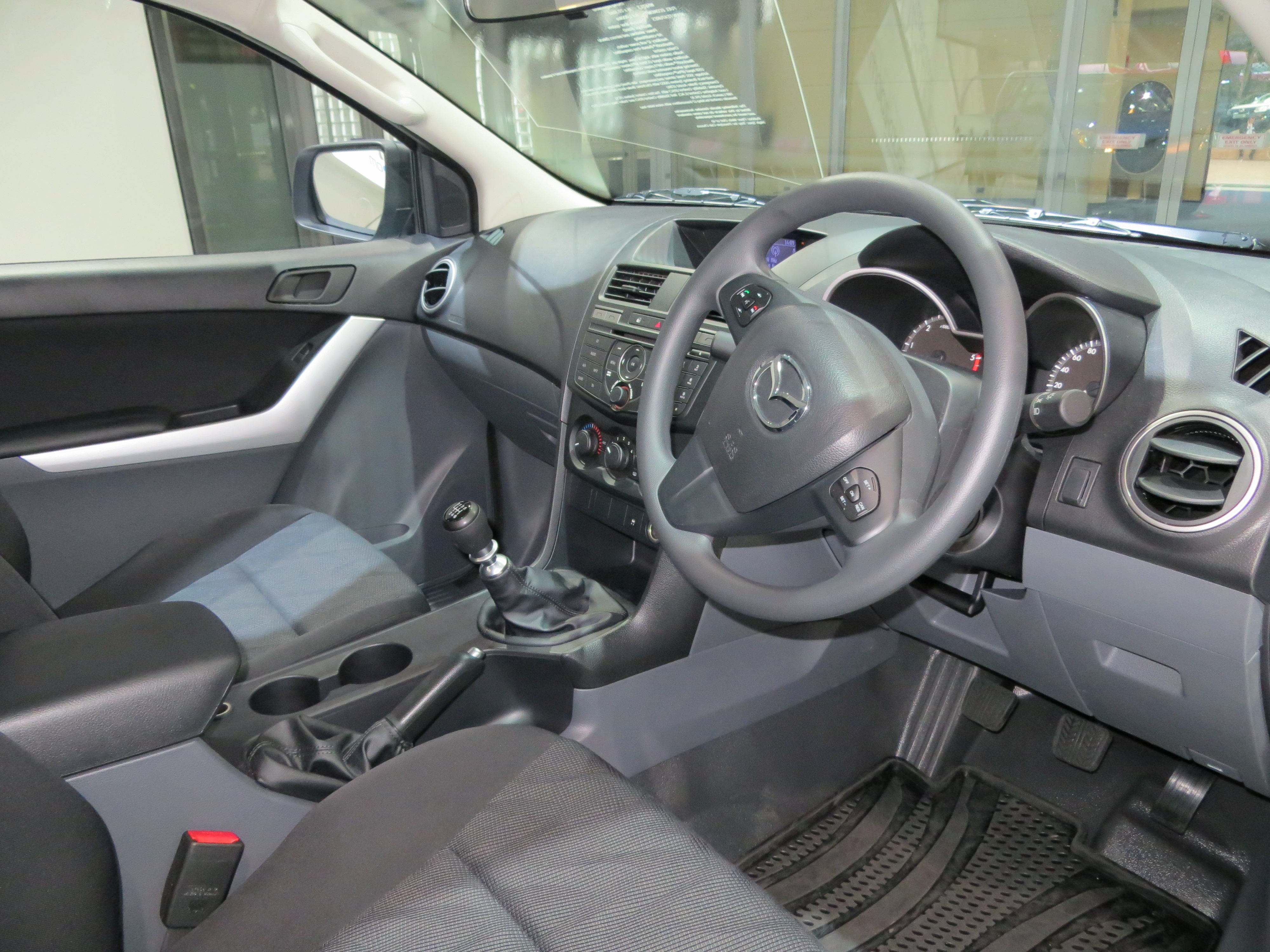 2012 Mazda BT-50 (B32P) XT Hi-Rider 4x2 Freestyle cab chassis. Photographed at the 2012 Australian International Motor Show, Sydney, New South Wales, Australia.